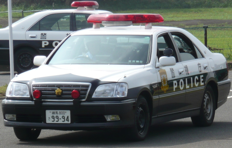 Toyota Crown police car.